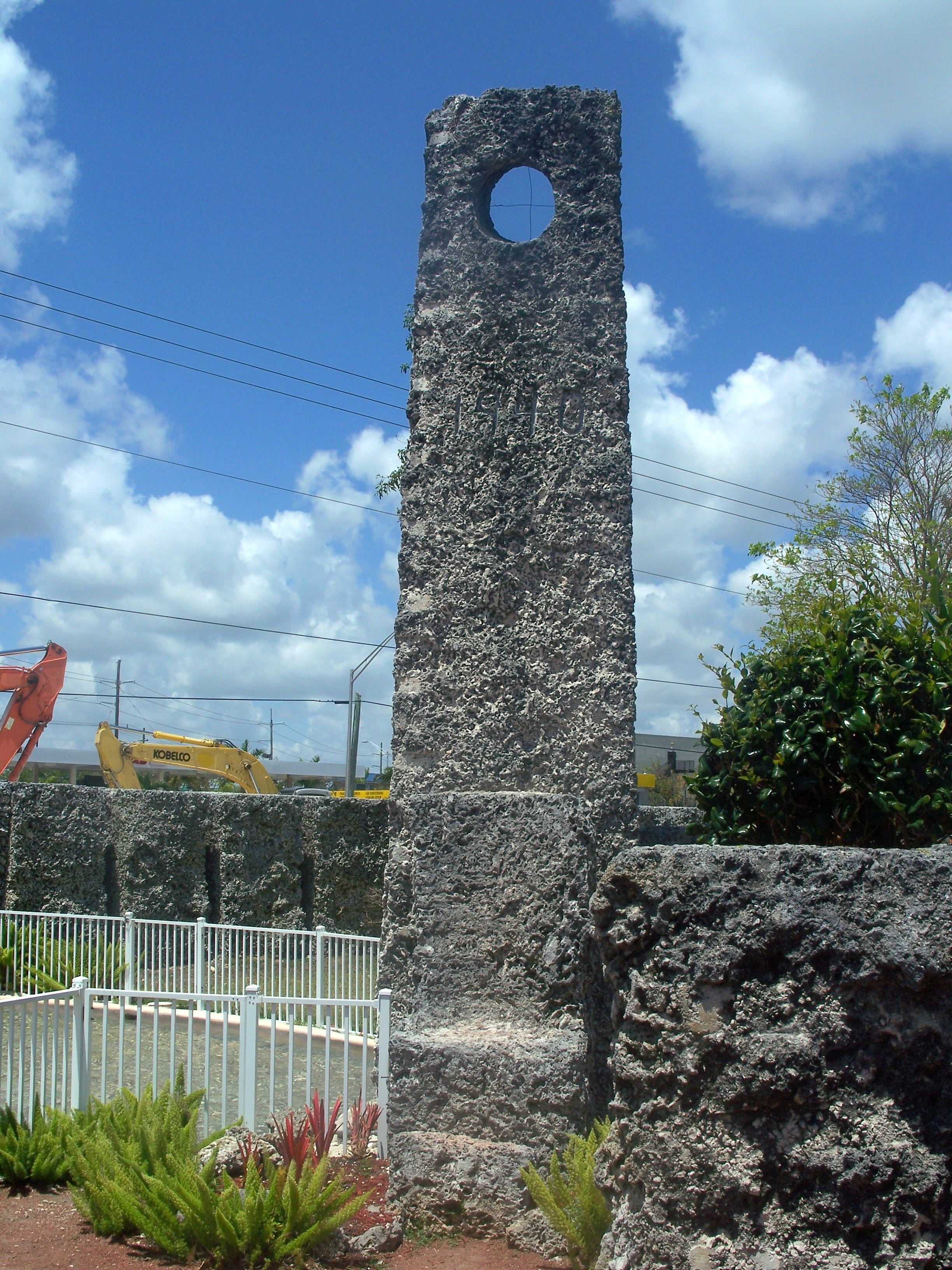 Homestead, Florida: Coral Castle: Polaris telescope